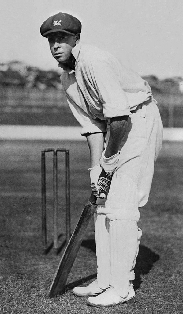 Victorian and Australia cricket great Bill Ponsford